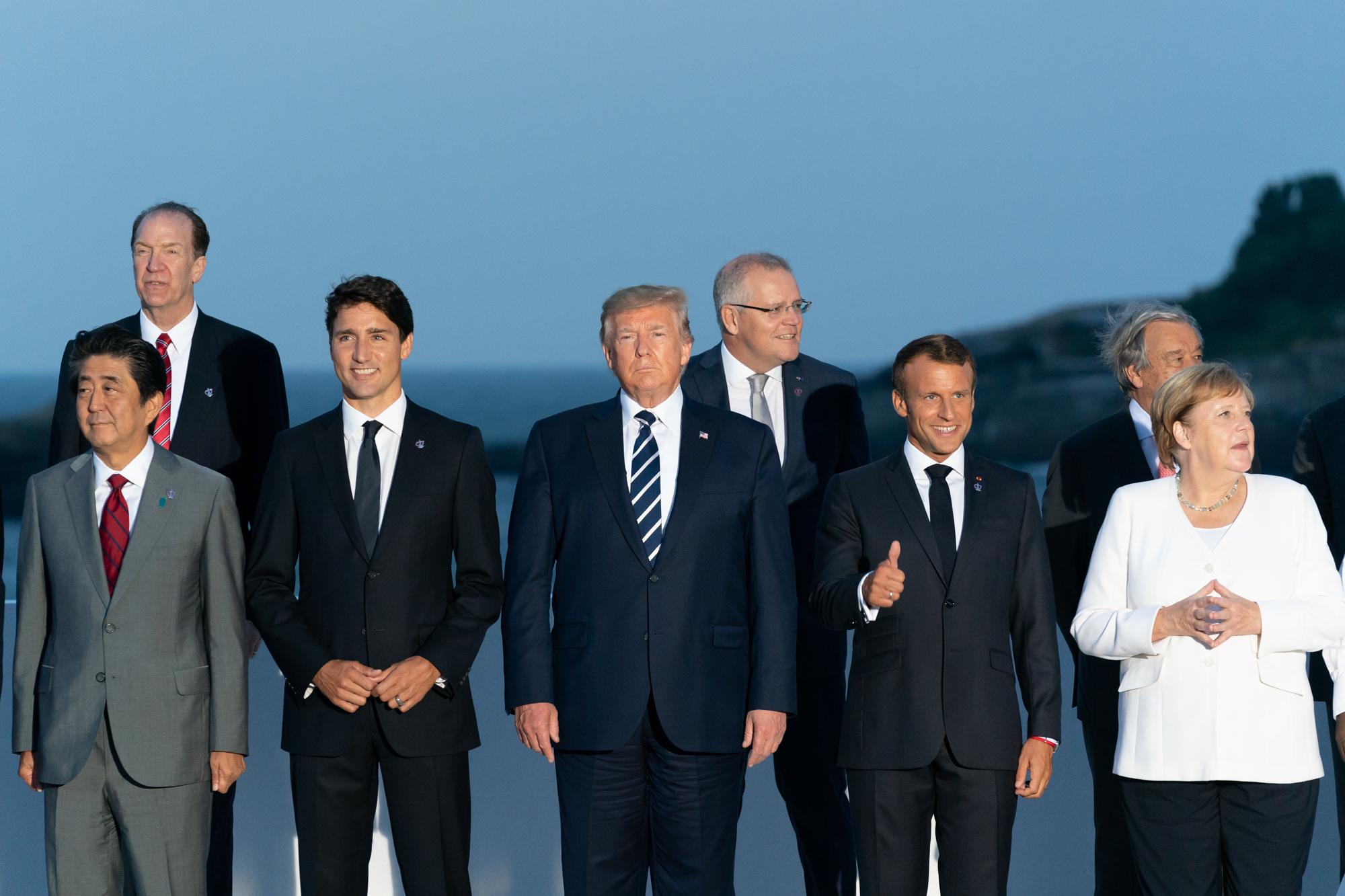 President Donald J. Trump joins the G7 Leadership and Extended G7 members as they pose for the “family photo” at the G7 Extended Partners Program Sunday evening, Aug. 25, 2019, at the Hotel du Palais Biarritz, site of the G7 Summit in Biarritz, France.